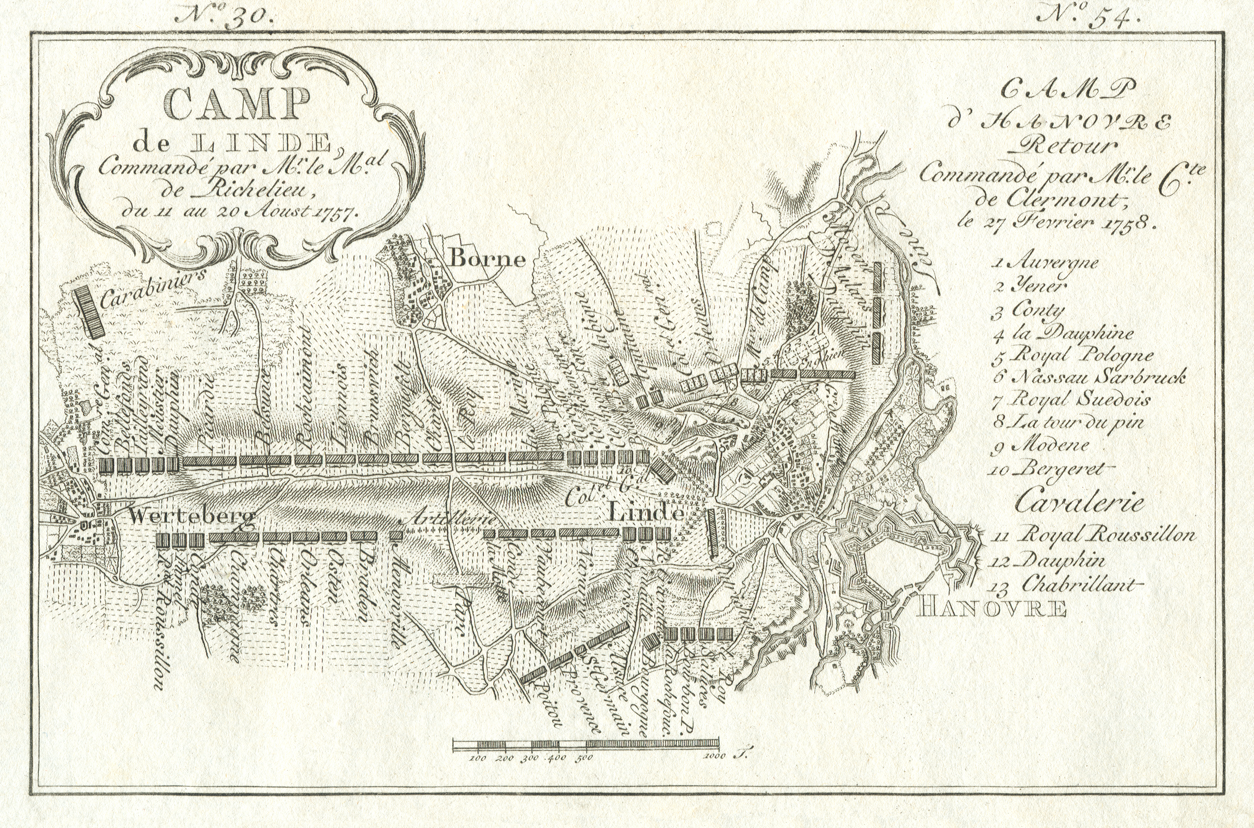 Topographic map, No. 30 & No. 54, of the camps – Linde et Hanovre – in the Seven Years War in 1757 and 1758 (edited detail: little 0.2 deg rotation; cropped & border-whitespace retouched with nearby content; whitespace of image: distracting spots and some scratches retouched)